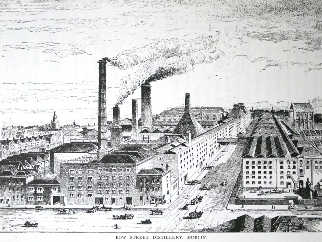 View of the Bow Street Jameson distillery in 1887, from Alfred Barnard